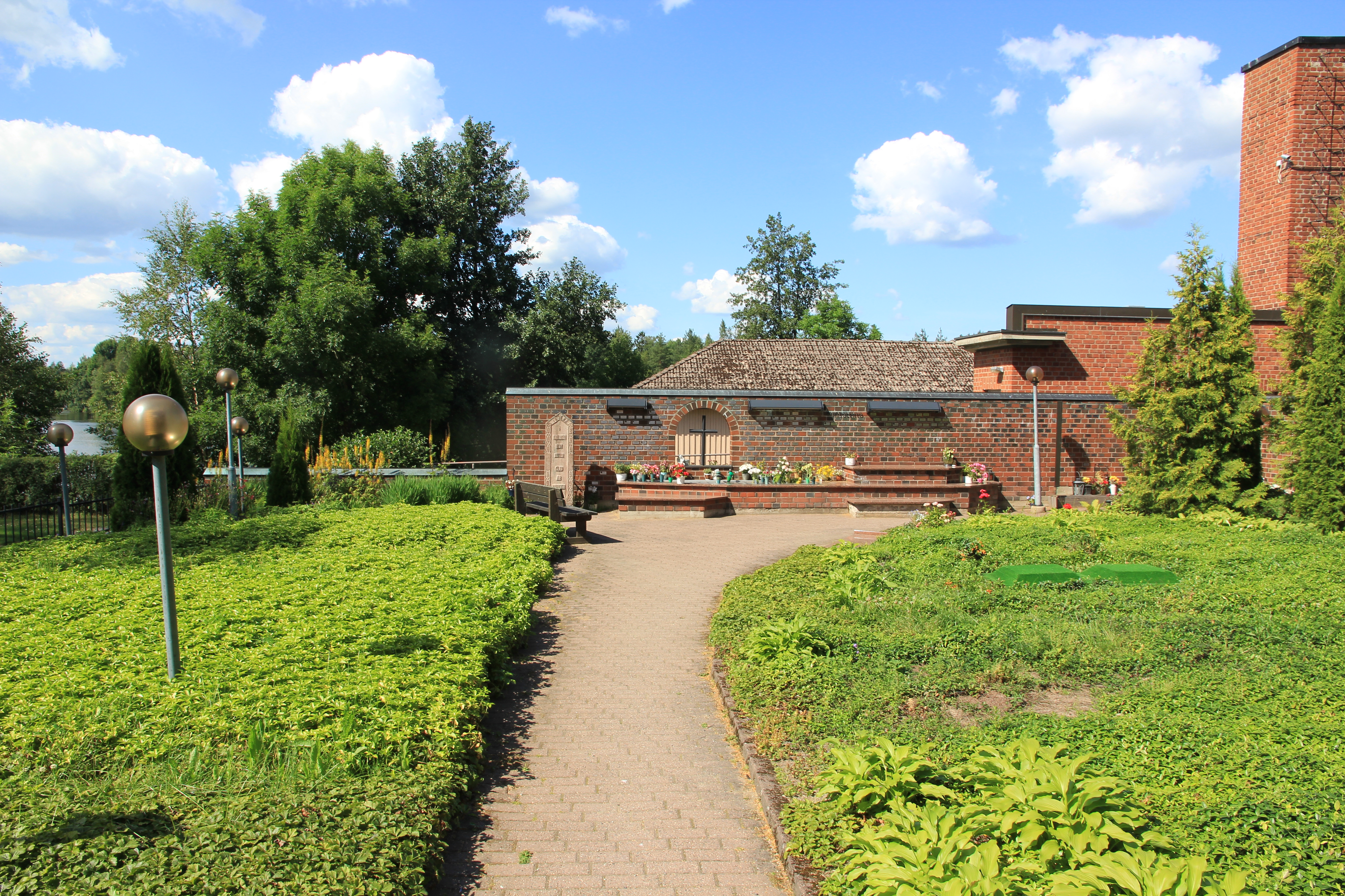 Tyrvää church cemetery memorial garden.